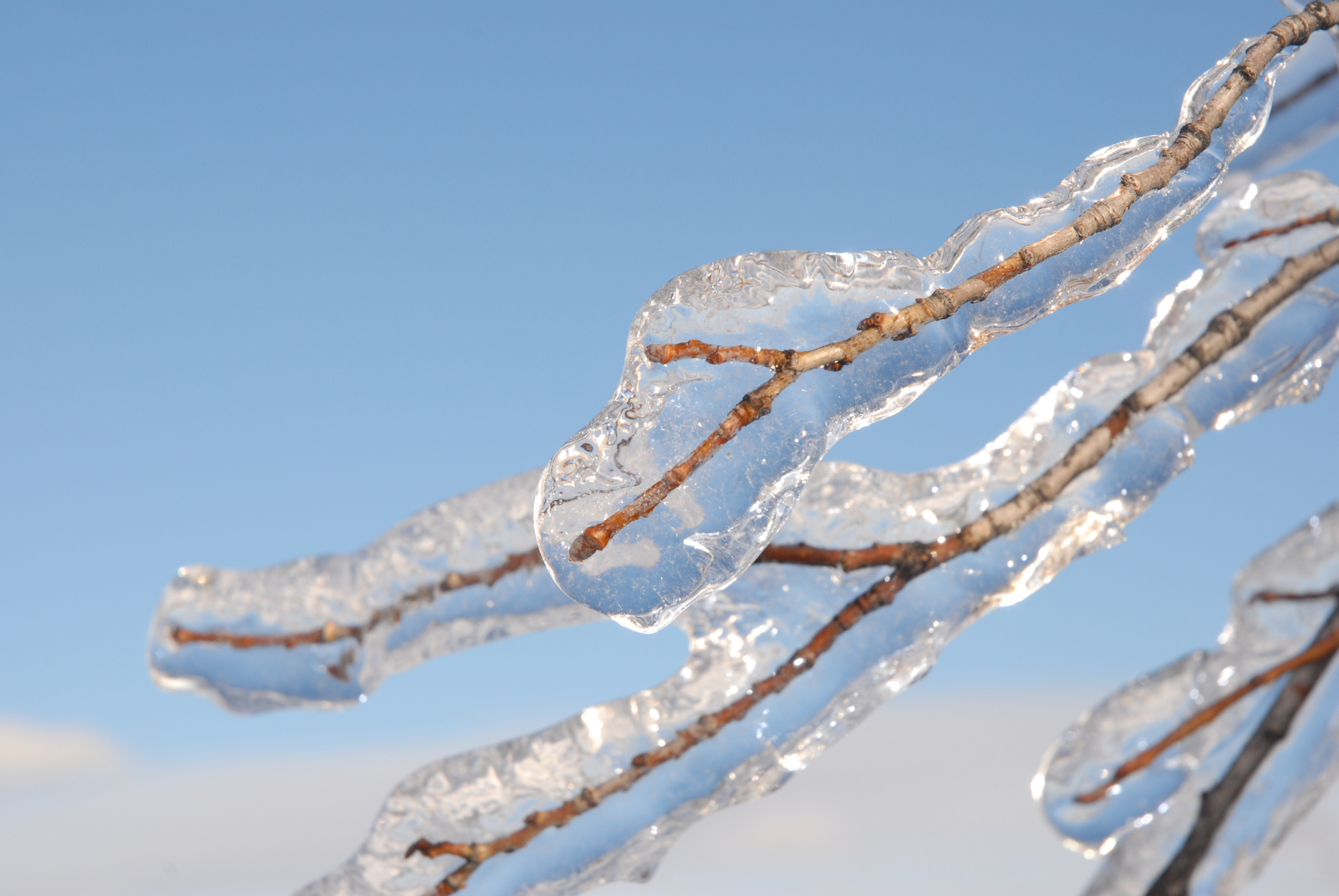 A tree branch completely en-globed in freezing rain.